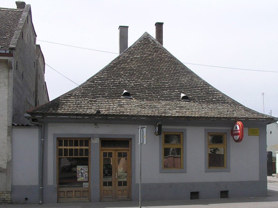 Old post office in Sombor